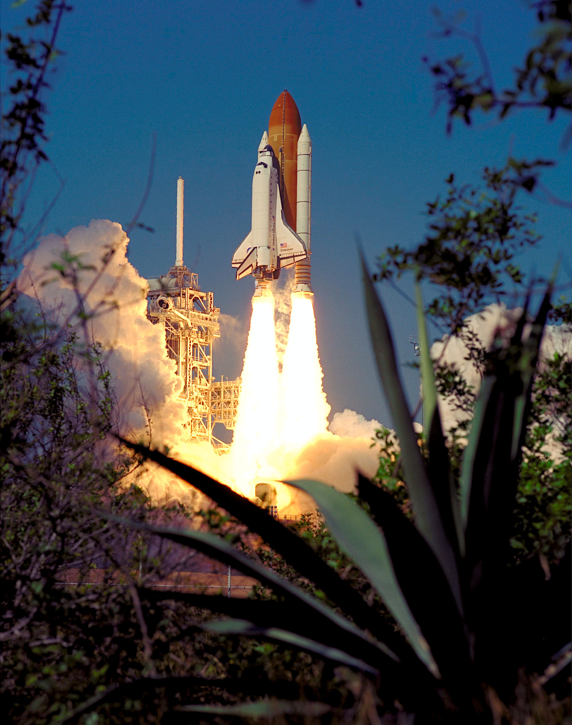 Space Shuttle Endeavour seems to leap from the among the palmettos on its launch into the clear blue Florida sky. Launch of Endeavour on mission STS-99 occurred at 12:43:40 p.m. EST. Known as the Shuttle Radar Topography Mission (SRTM), STS-99 will chart a new course to produce unrivaled 3-D images of the Earth's surface. The result of the SRTM could be close to 1 trillion measurements of the Earth's topography. The mission is expected to last 11 days, with Endeavour landing at KSC Tuesday, Feb. 22, at 4:36 p.m. EST. This is the 97th Shuttle flight and 14th for Shuttle Endeavour.